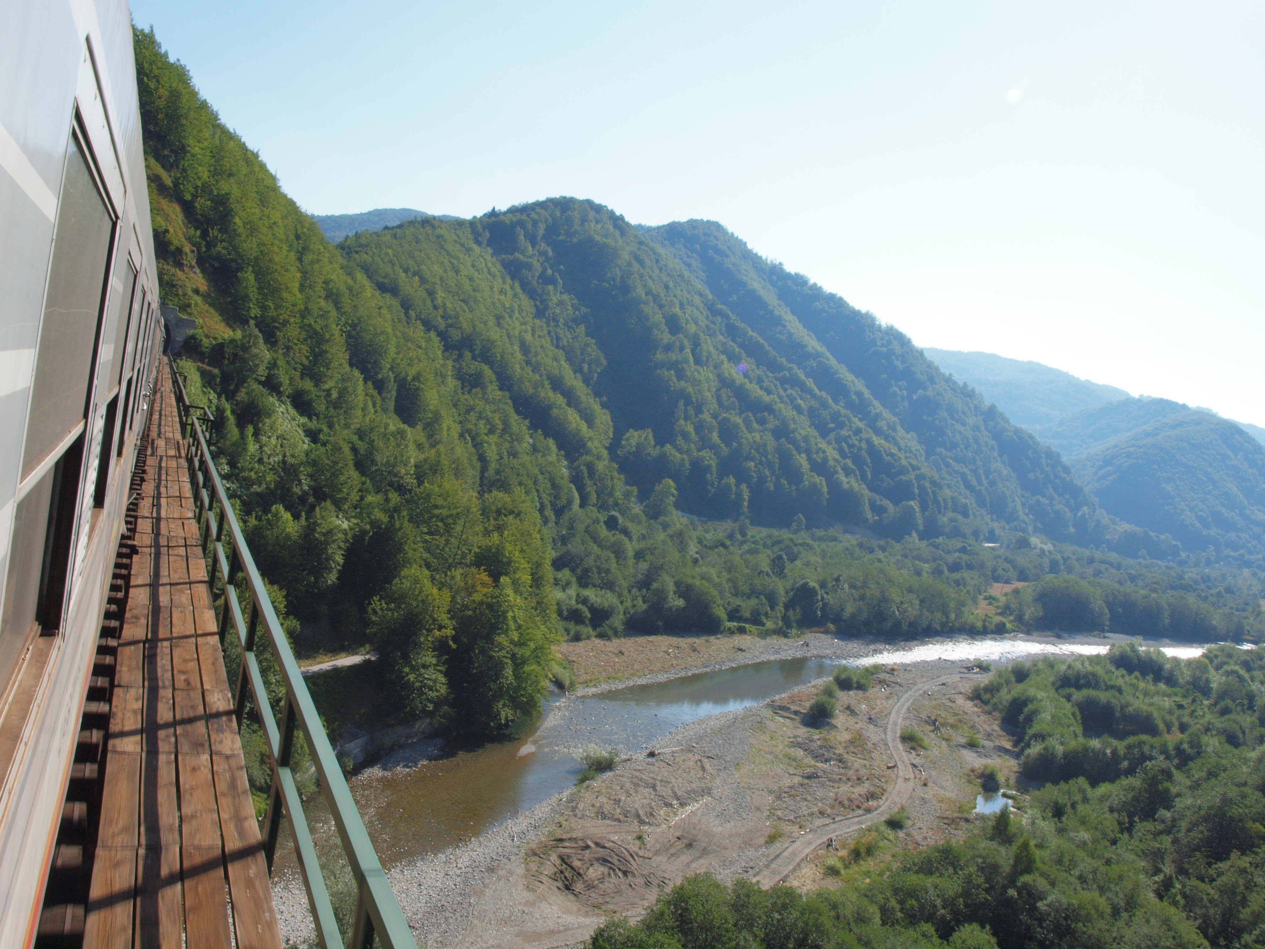 Tara valley